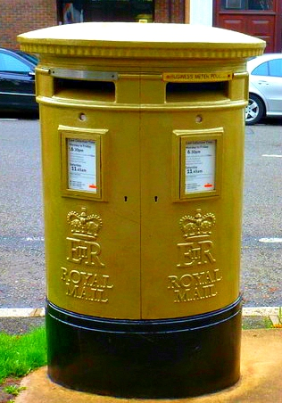 Cheam: postbox № SM3 215, Ewell Road